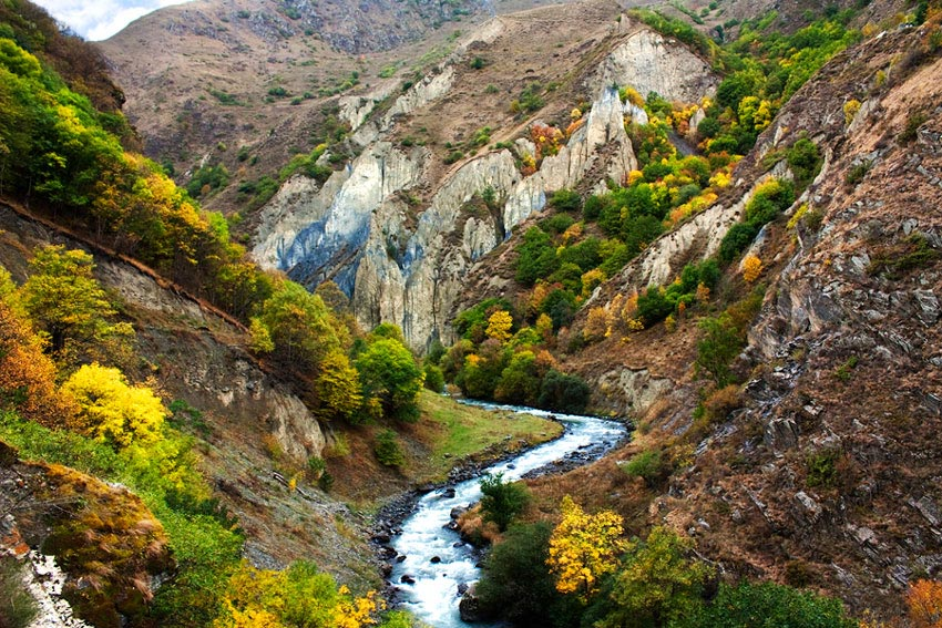 Khevsureti, Georgia — Mountain River